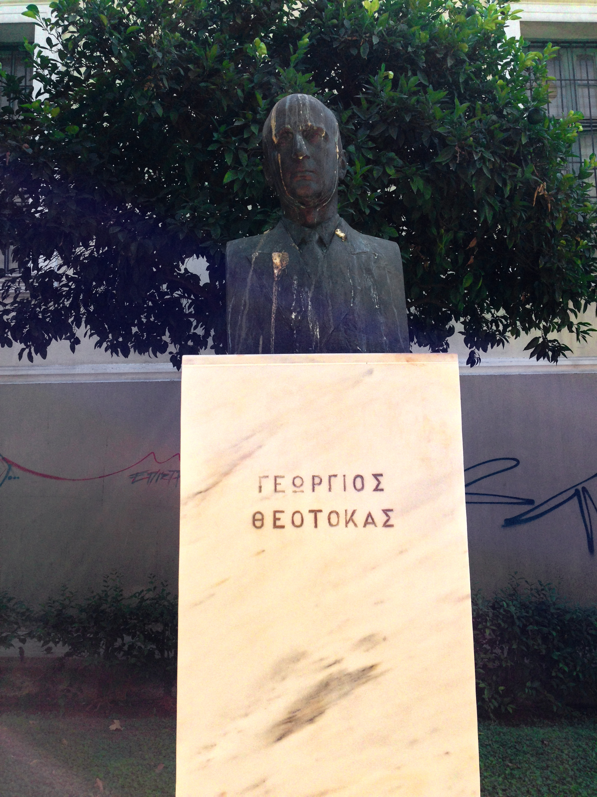 Giorgos Theotokas, Ellinon Logotehnon park